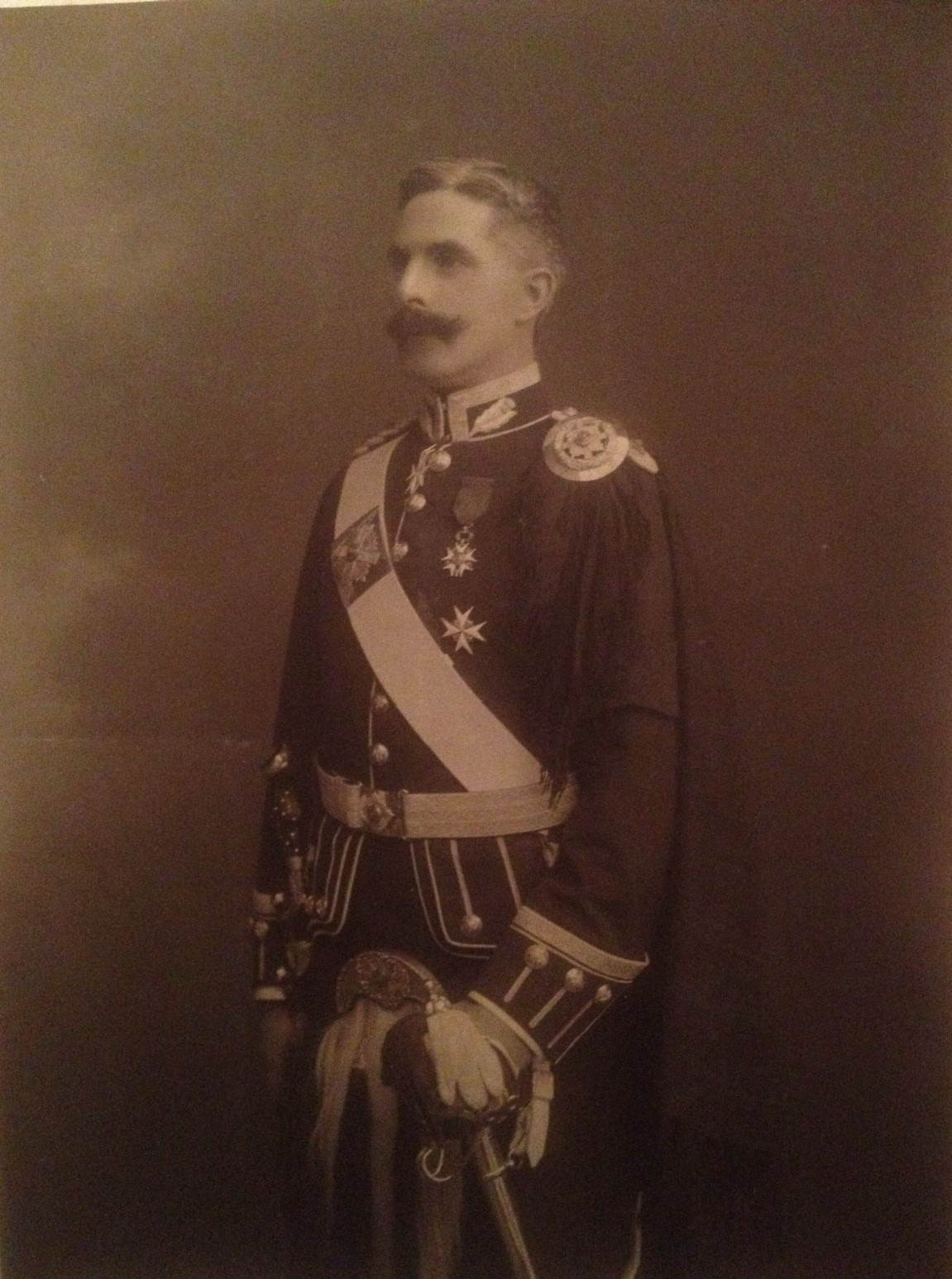 Major A. A. Gordon in his military uniform